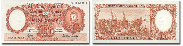 100 Pesos Moneda Nacional banknote of Argentina.